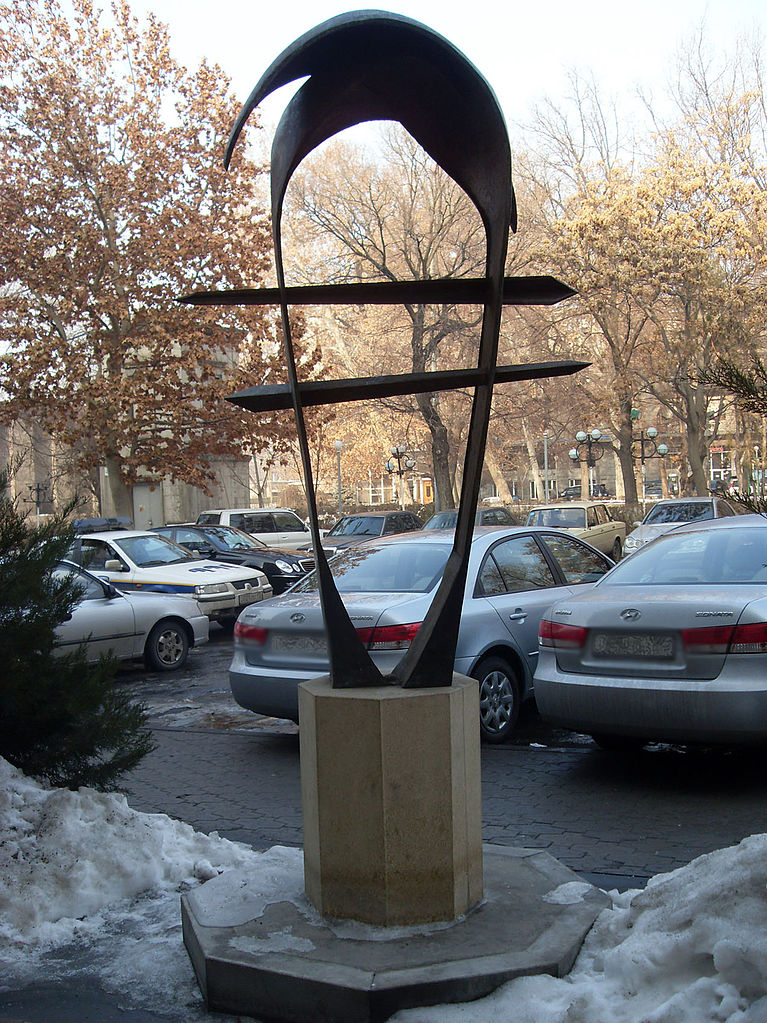 Sculpture of Armenian dram.